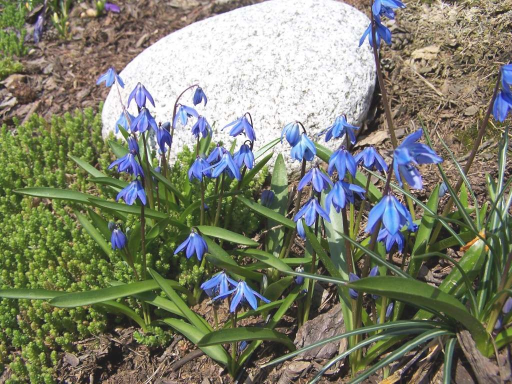 Othocallis siberica (pl. cebulica syberyjska)